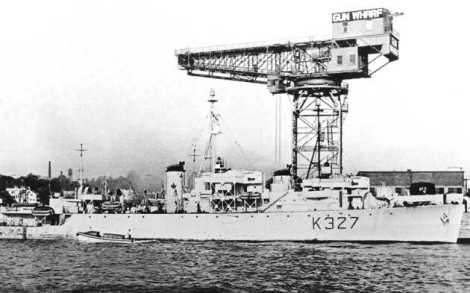 River class frigate HMCS Stormont; now she exists as the luxury yacht Christina O